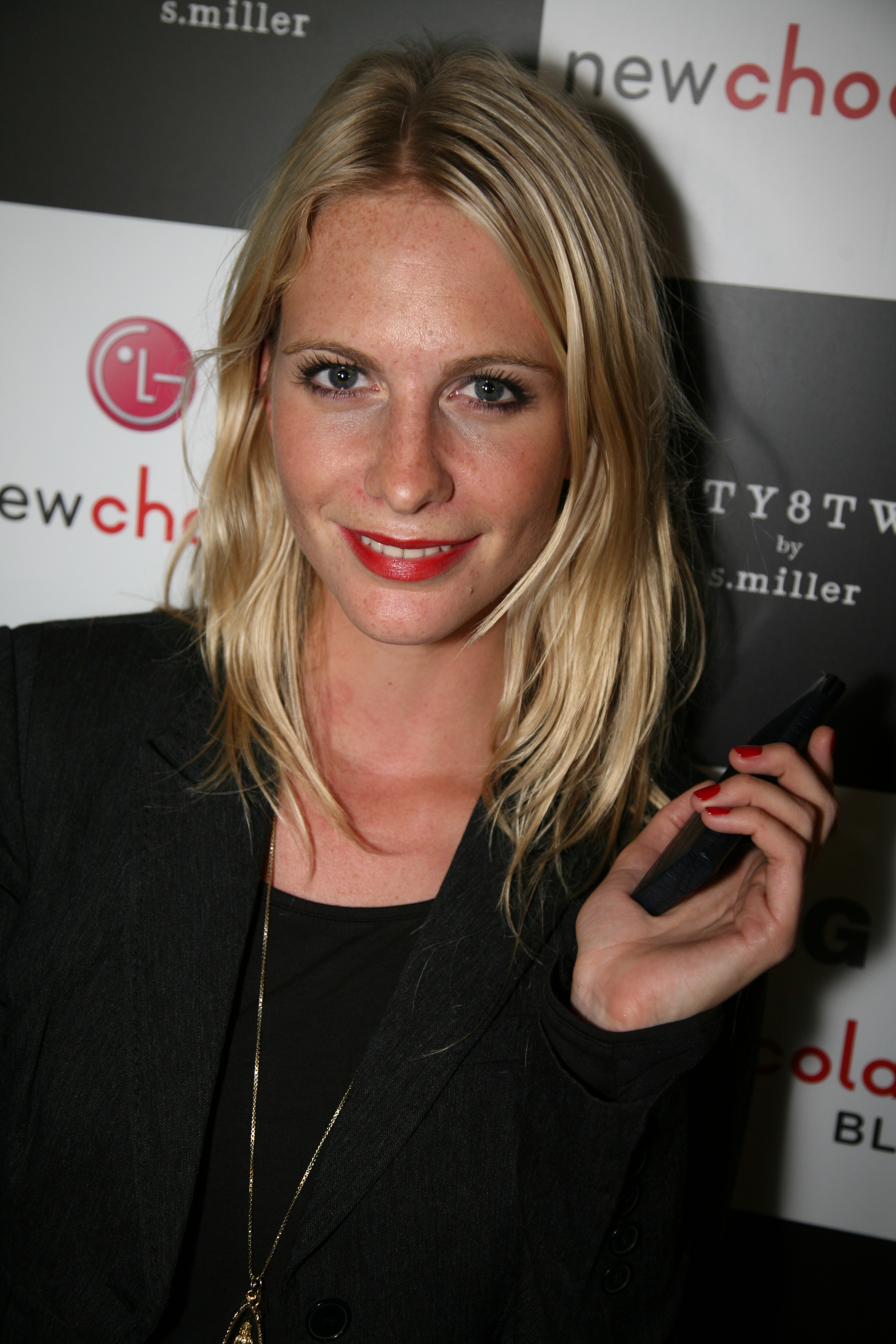 Poppy Delevingne poses with an LG phone at the LG sponsored Twenty8Twelve Spring/Summer 2010 show during London Fashion Week, September 2009.